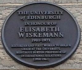 In honour of Elizabeth Wiskemann 1901 - 1971. Historian and first woman to hold a chair at the University. Montague Burton Professor of International Relations (1954 - 1961).